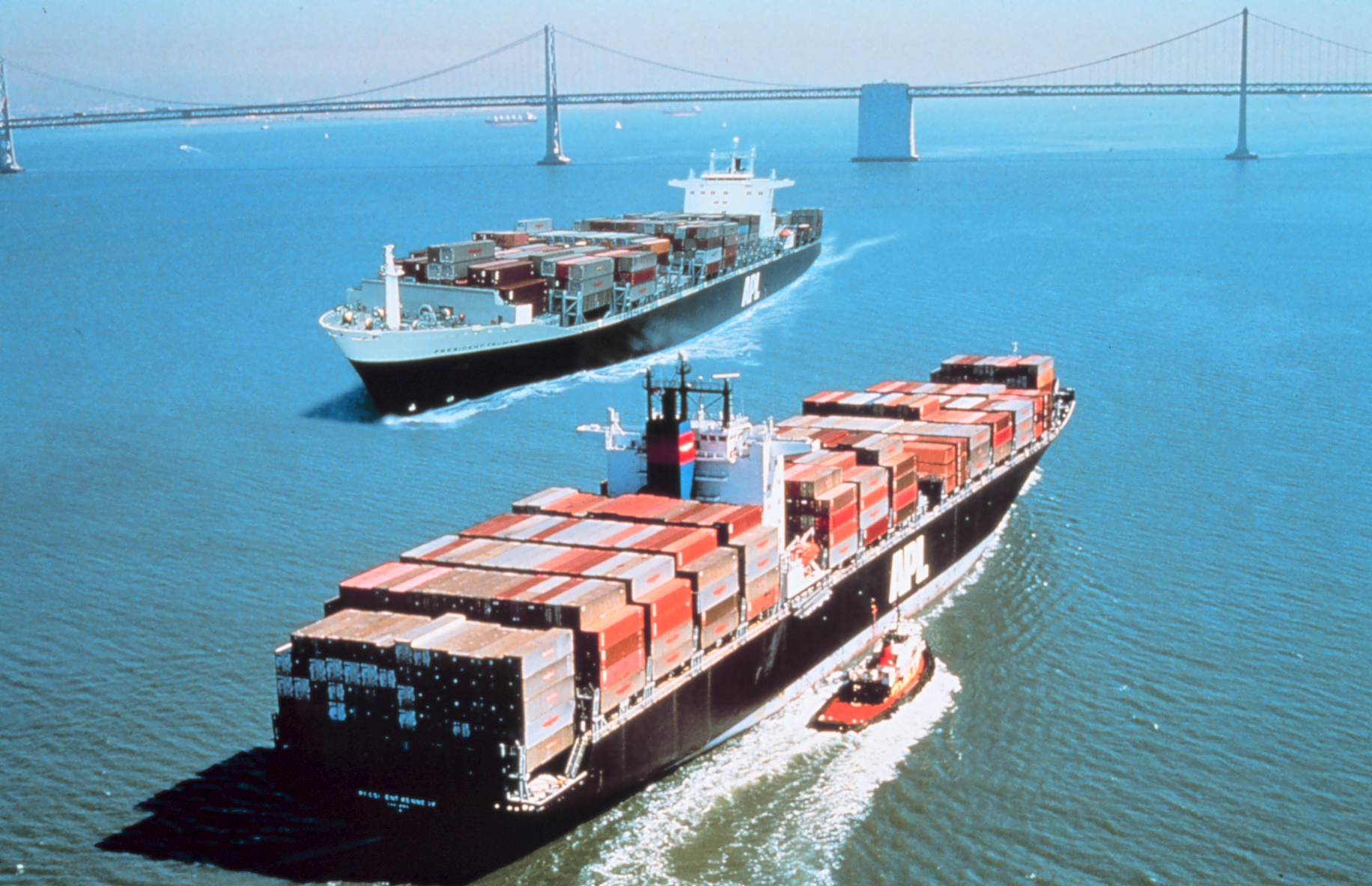 APL Post-Panamax container ships Image ID: line0534, America's Coastlines. Collection Location: San Francisco. PRESIDENT TRUMAN IMO Number: 8616283 MMSI Number: 368598000 Callsign: WNDP Length: 275 m Beam: 39 m PRESIDENT KENNEDY IMO Number: 8616295 Length: 275 m Beam: 39 m